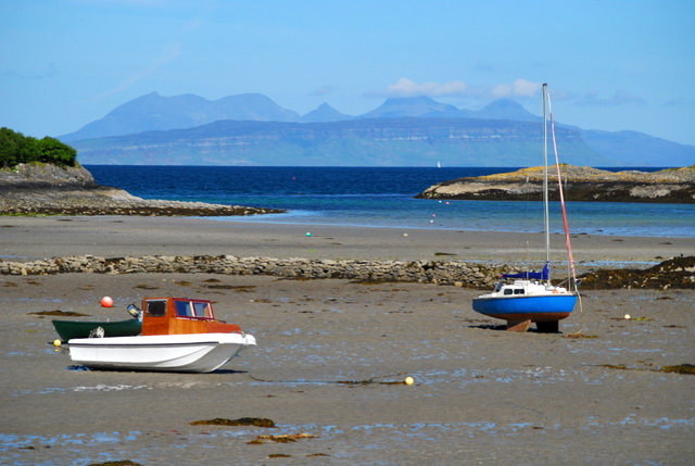 Eigg & Rum from Glenuig Only oystercatchers for company here. Rum towers above the Sgurr of Eigg.